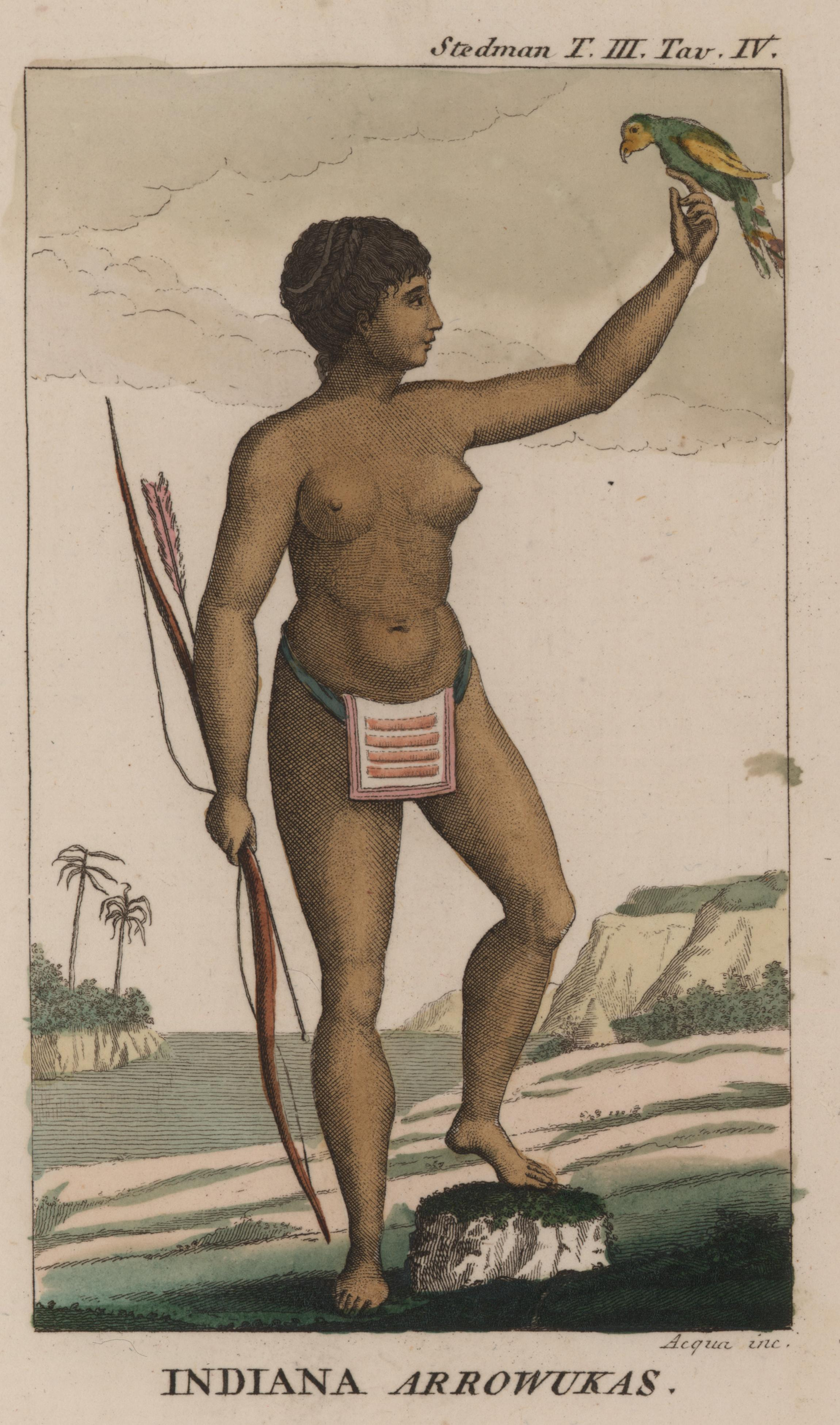 Arawak woman by John Gabriel Stedman, wearing a loin cloth of woven beads.